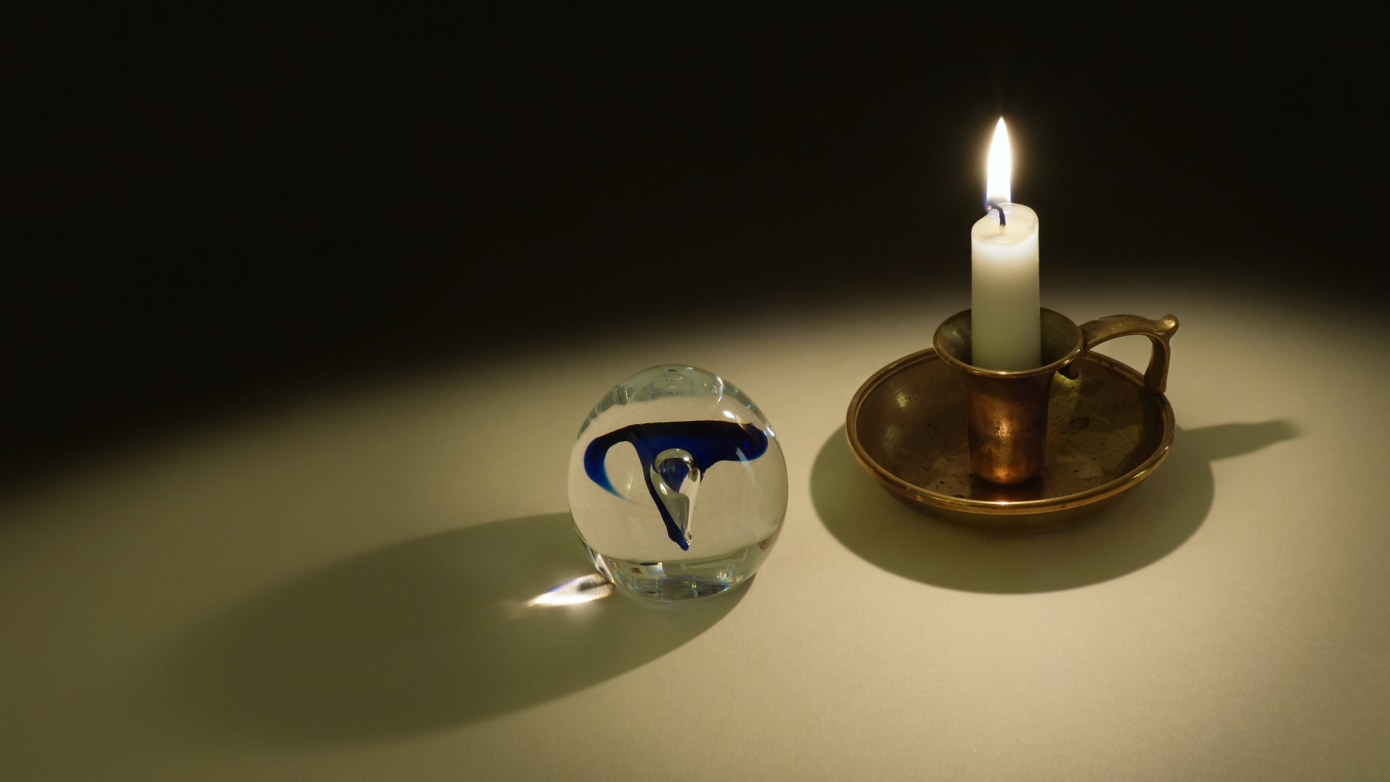 The flame of a candle projected on a table though a glass paper weight acting as a lens. The photo is a manual HDR combination of nine photos of different exposures to get the best light and reduce noise.